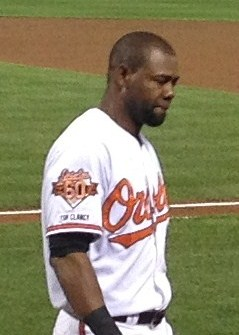 De Aza on the field at Camden Yards